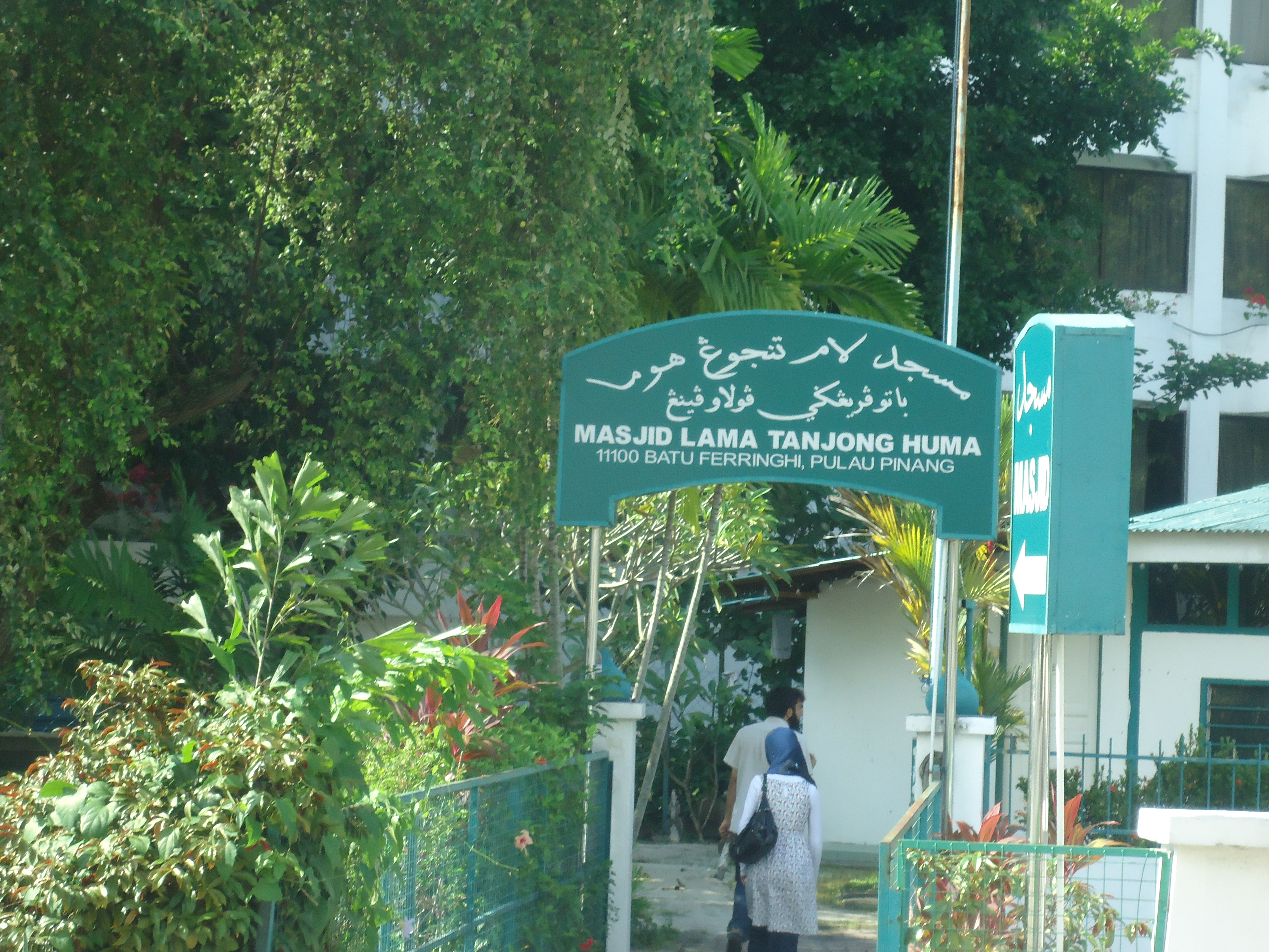 Islam in Malaysia